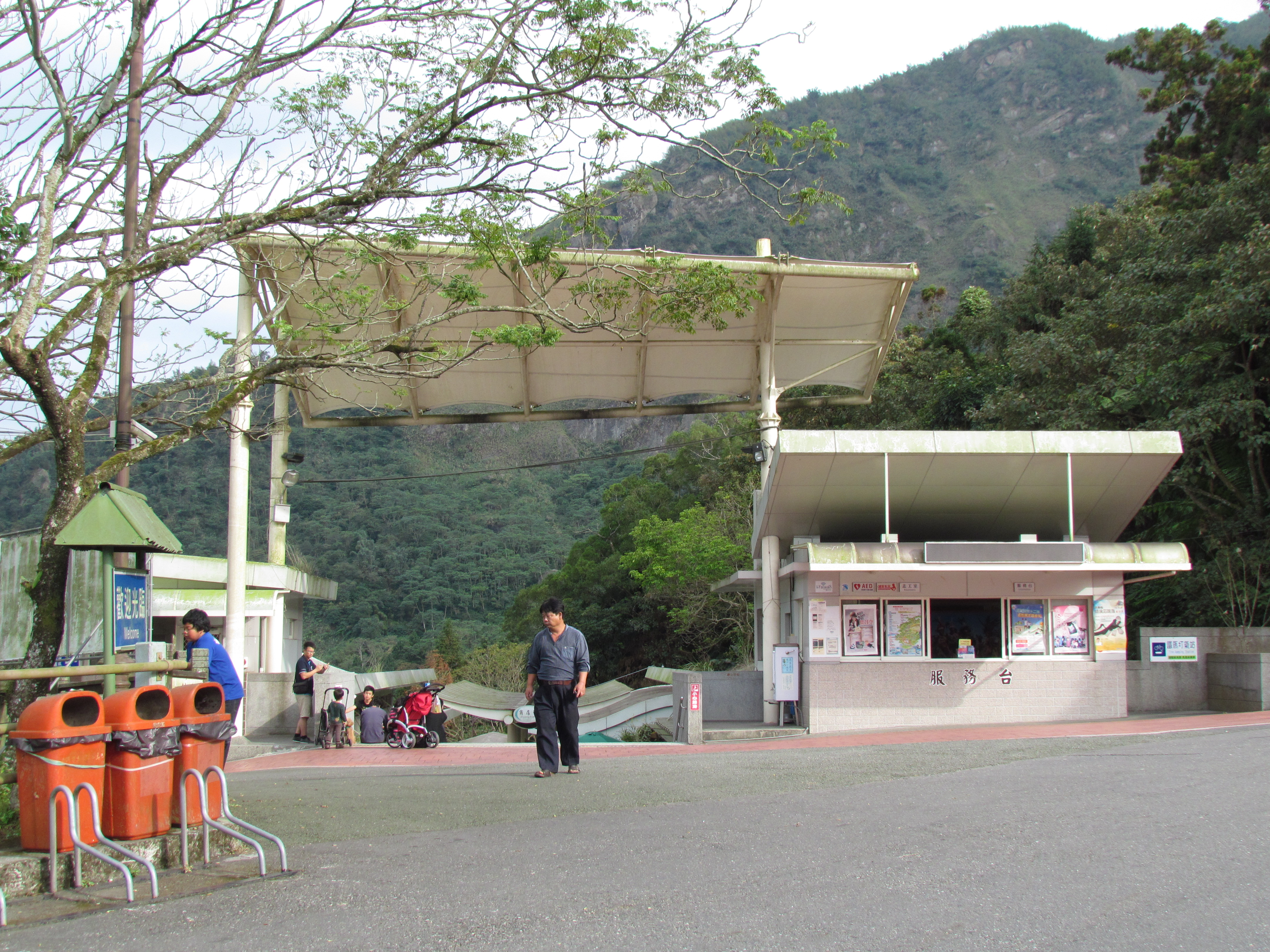 The gate of Fonghuanggu Bird and Ecology Park